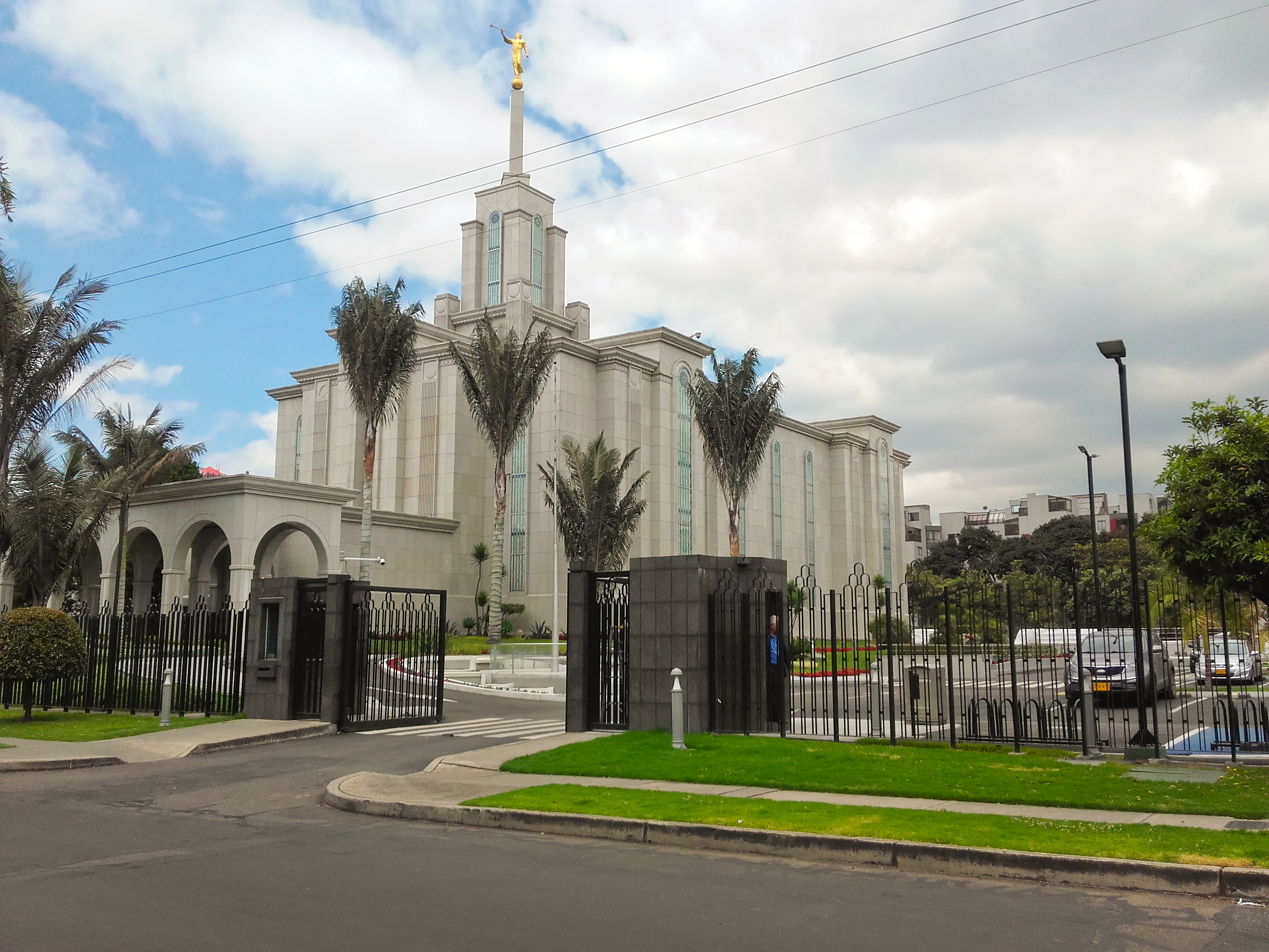 Meetinghouses of The Church of Jesus Christ of Latter-day Saints in Bogotá